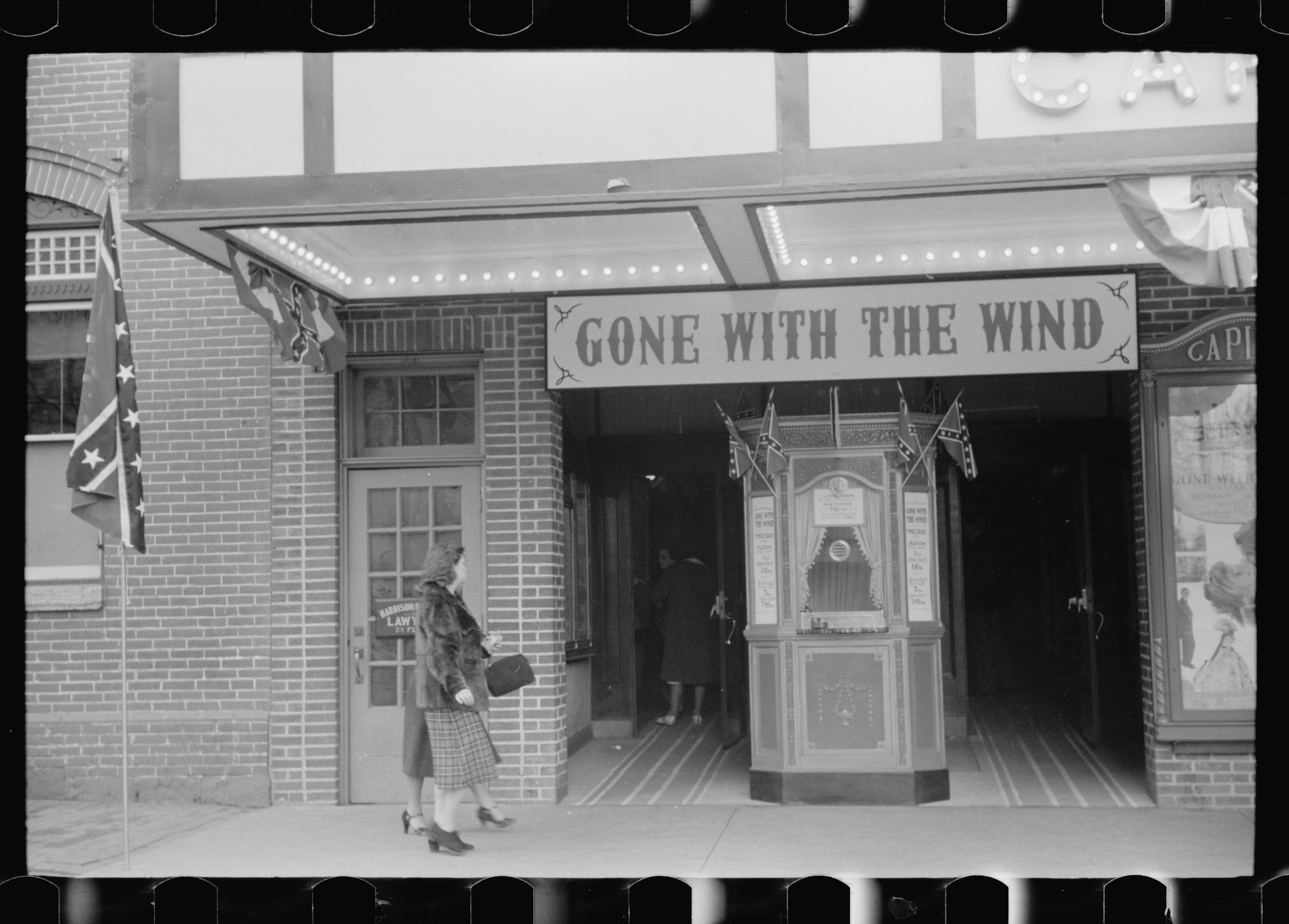 Flags of the Confederacy displayed at a movie house on Lincoln's birthday in Winchester, Virginia. The movie playing is "Gone With the Wind."